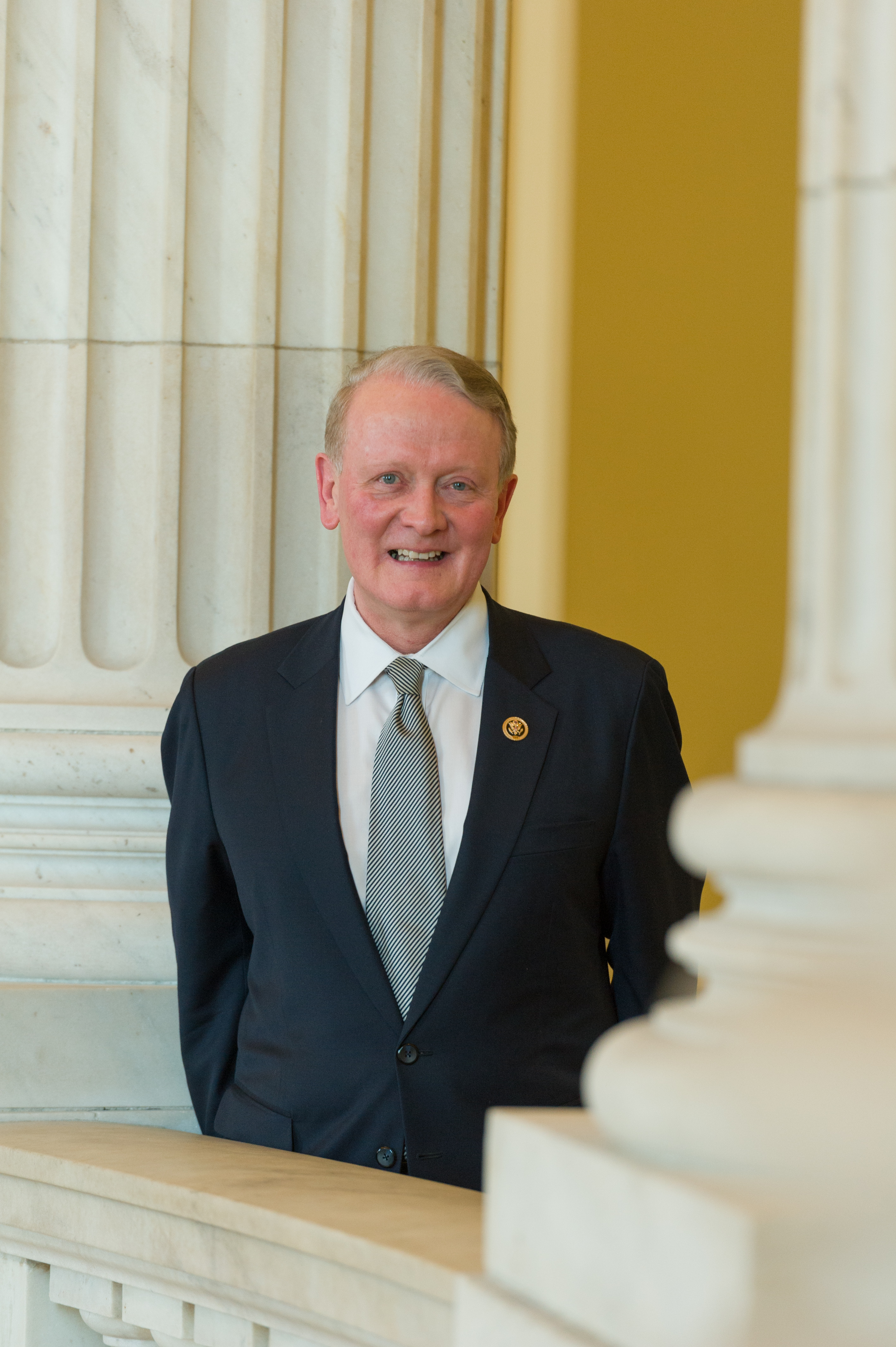 Leonard Lance official photo, 114th Congress